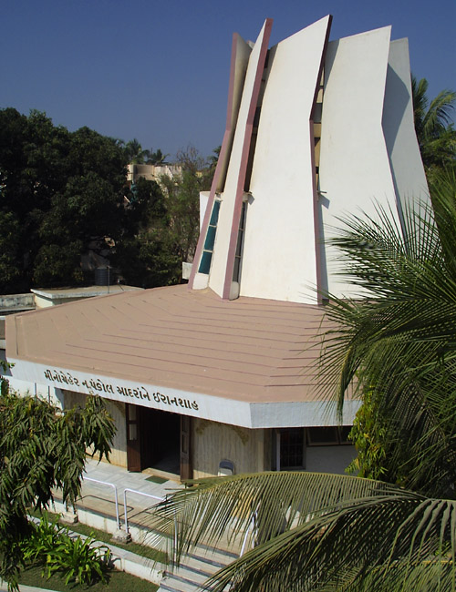 This photograph was shot by myself (Rayomand Ichhaporia) in March 2004. The photograph was taken from the roof of the adjacent Globe Hotel in Udvada, India.